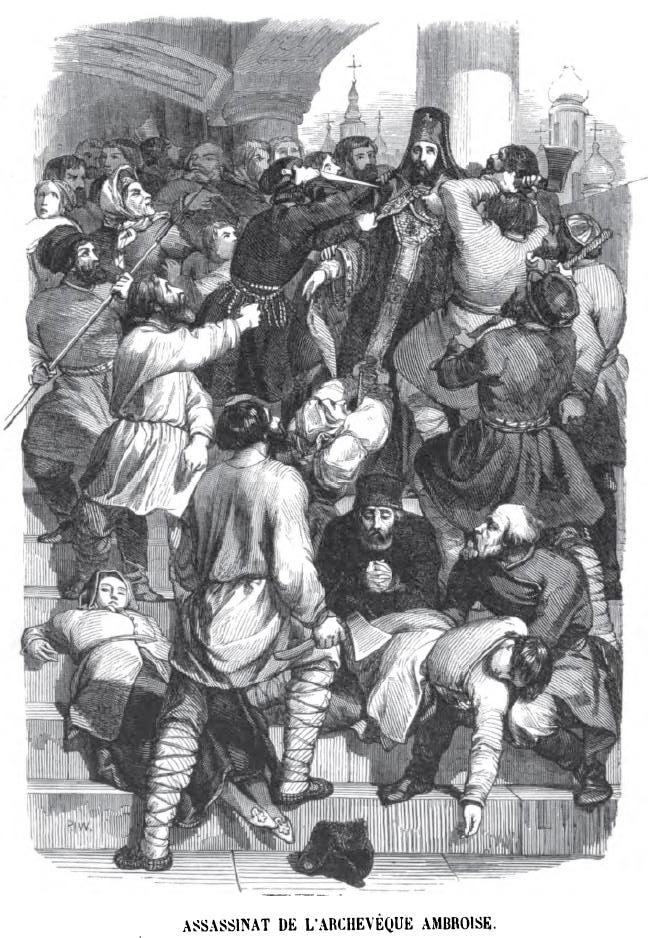 Murder of Archbishop Ambrosius of Moscow during the 1771 Plague.